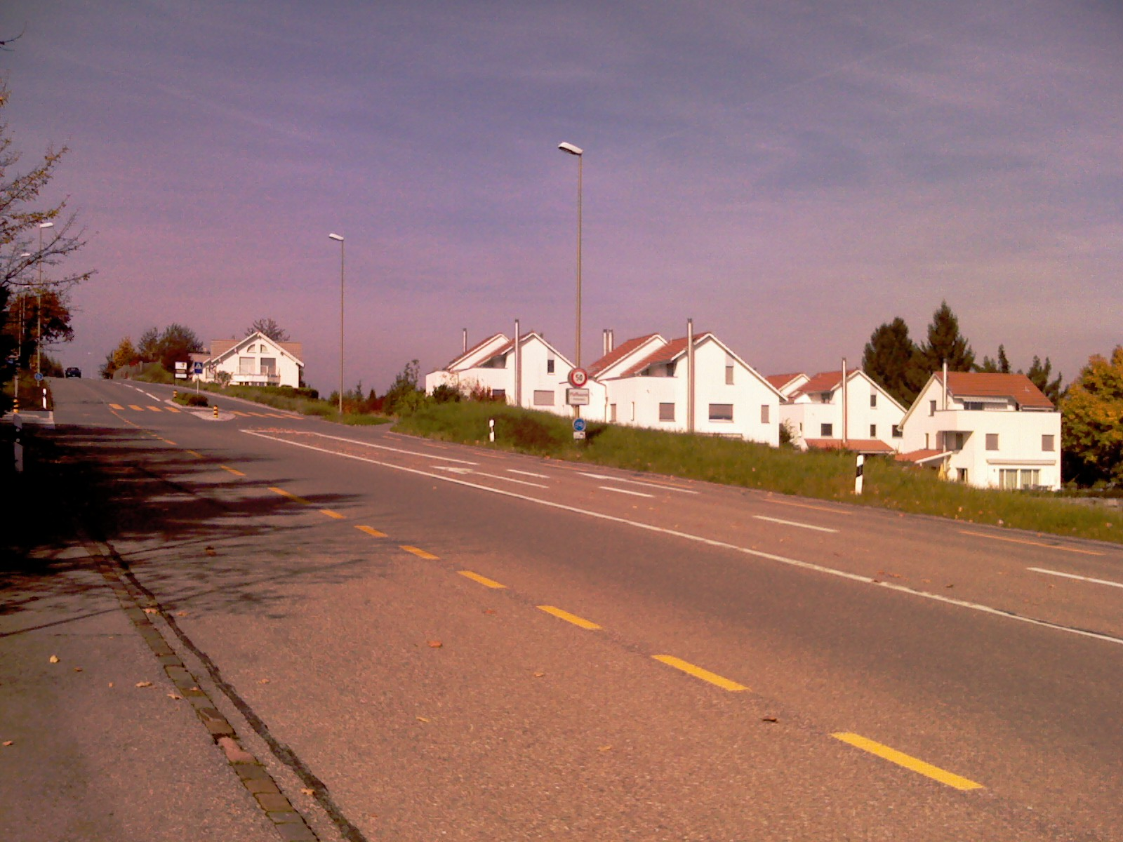 Pfaffhausen, village of the municipality of Fällanden, Canton of Zurich, Switzerland.